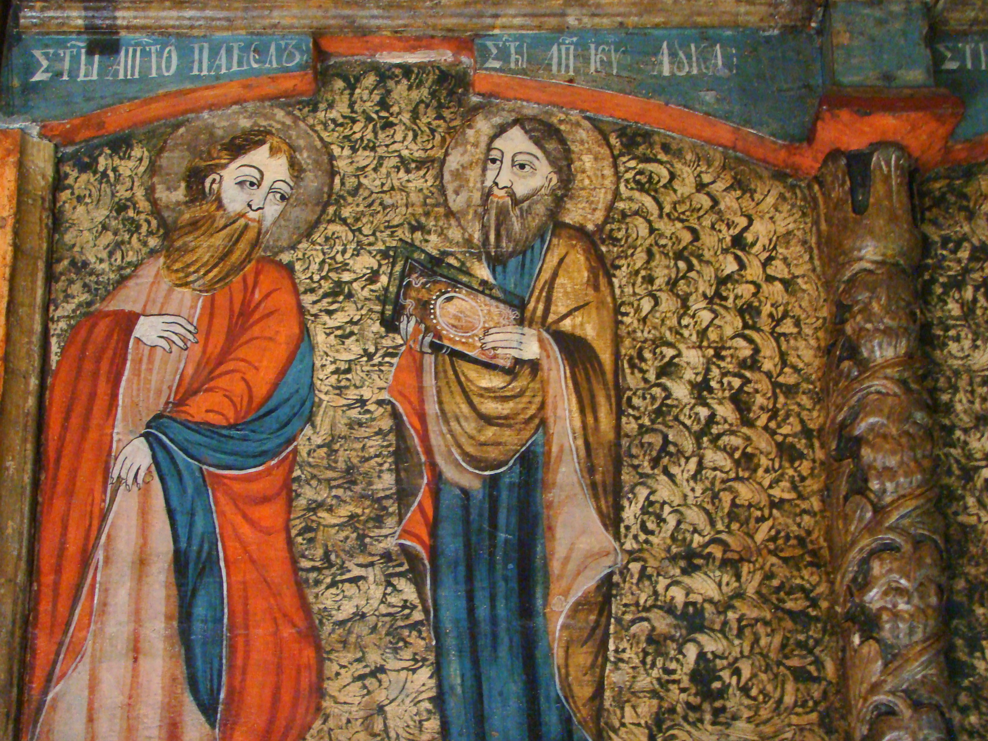 Wooden church in Cormaia monastery, Bistrița-Năsăud county, Romania